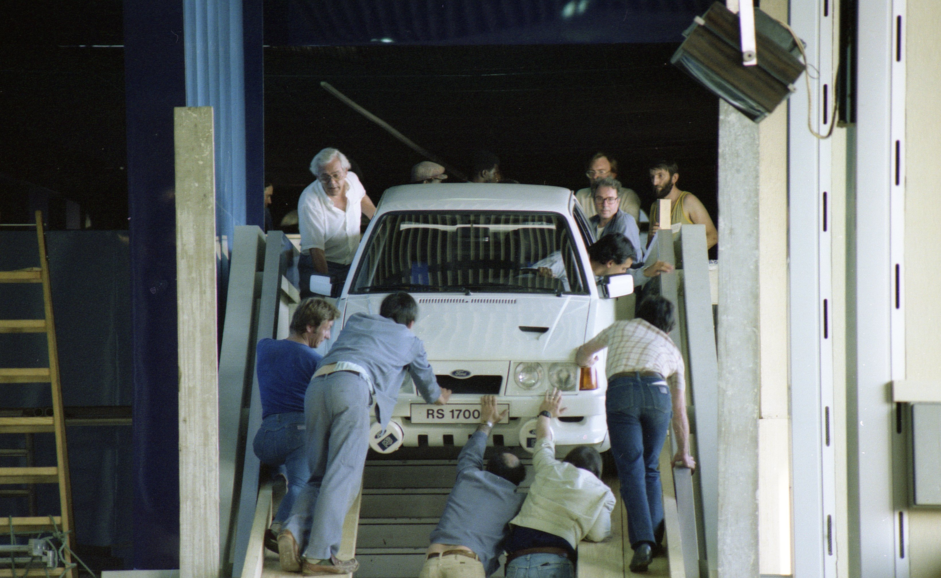 The Ford Escort RS 1700T was a prototype RWD car designed by Ford Motor Company in 1980 to compete in Group B rallying. Prototypes were based on the MKIII Escort and featured a turbocharged 1.8 litre four cylinder engine producing over 200 horsepower. Persistent problems during the vehicle's development prompted Ford to drop plans for its production and instead begin work on an all-wheel-drive model designed and built from scratch, resulting in the famous RS200. I took this photo in Paris at the launch of the Ford Sierra to dealers where I was working on the Ford Service stand. The RS1700T was also on show. There was some difficulty getting it into the display area...Ford Escort RS1700T